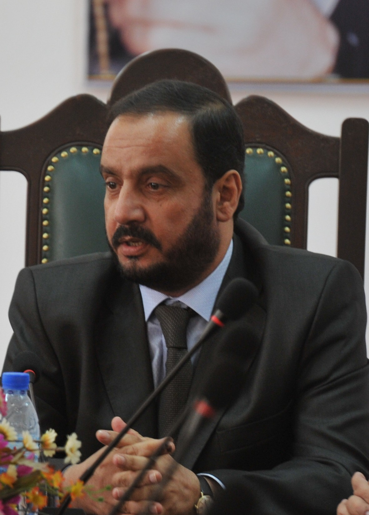 Deputy Ambassador Earl Anthoy Wayne meets Kunduz provincial governor, Mohammad Omar.